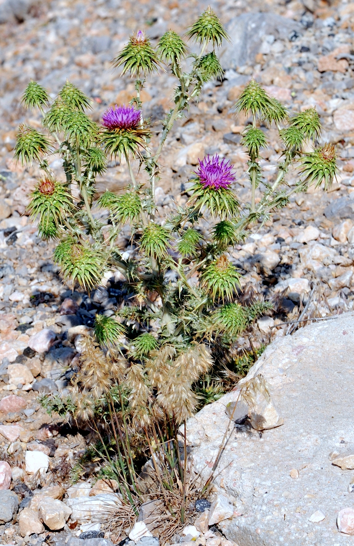 Cousinia hermonis Boiss., Mount Hermon, Israel/Syria, July 9, 2011.